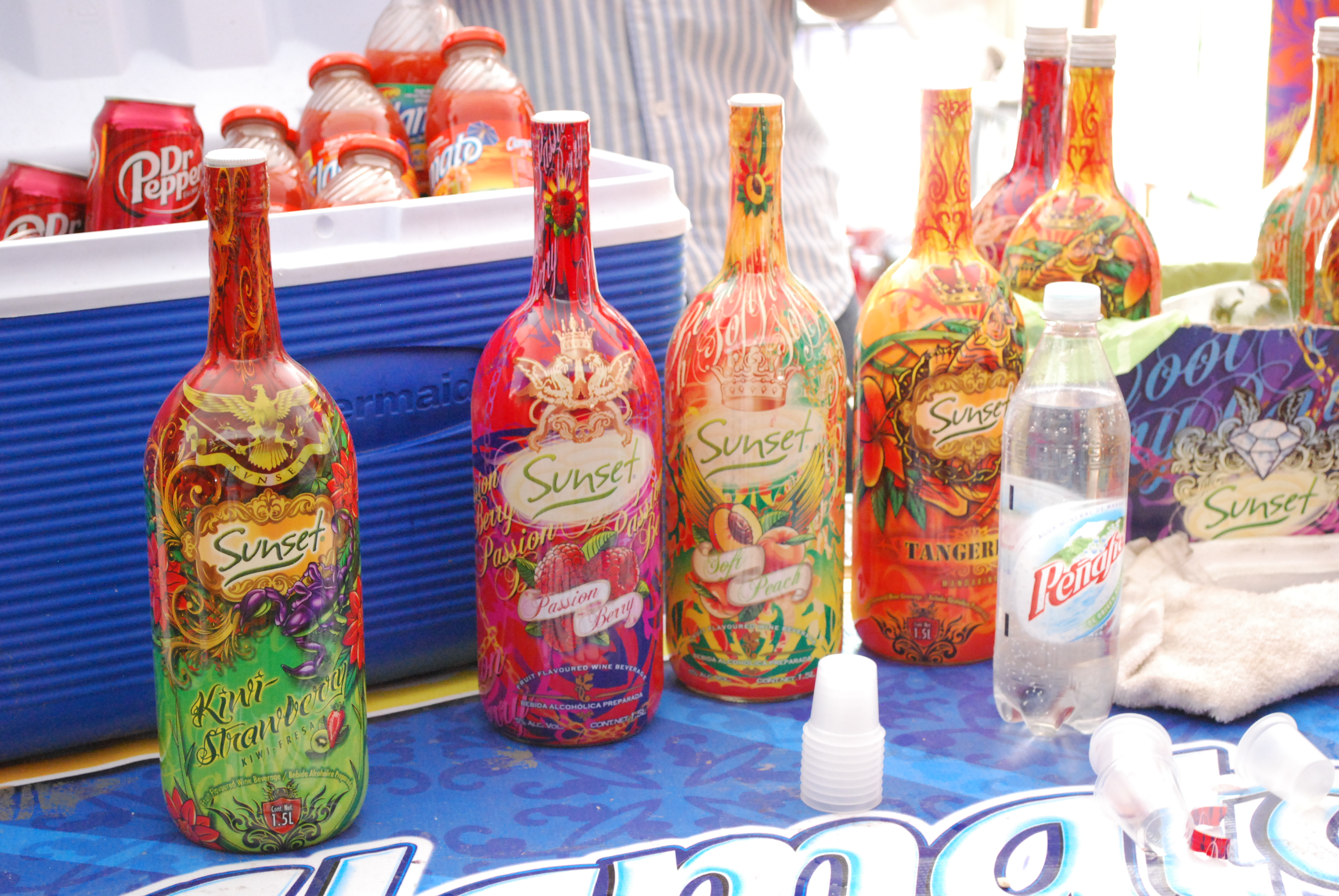 Wine coolers for sampling at the Feria del Queso y el Vino in Tequisquiapan, Queretaro, Mexico